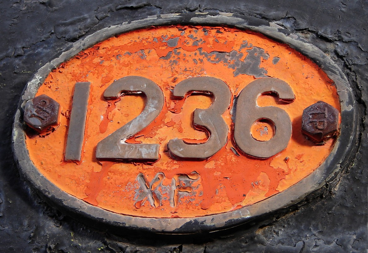 Type XF tender plate of SAR Class 8FW no. 1236Location: De Aar, Northern Cape